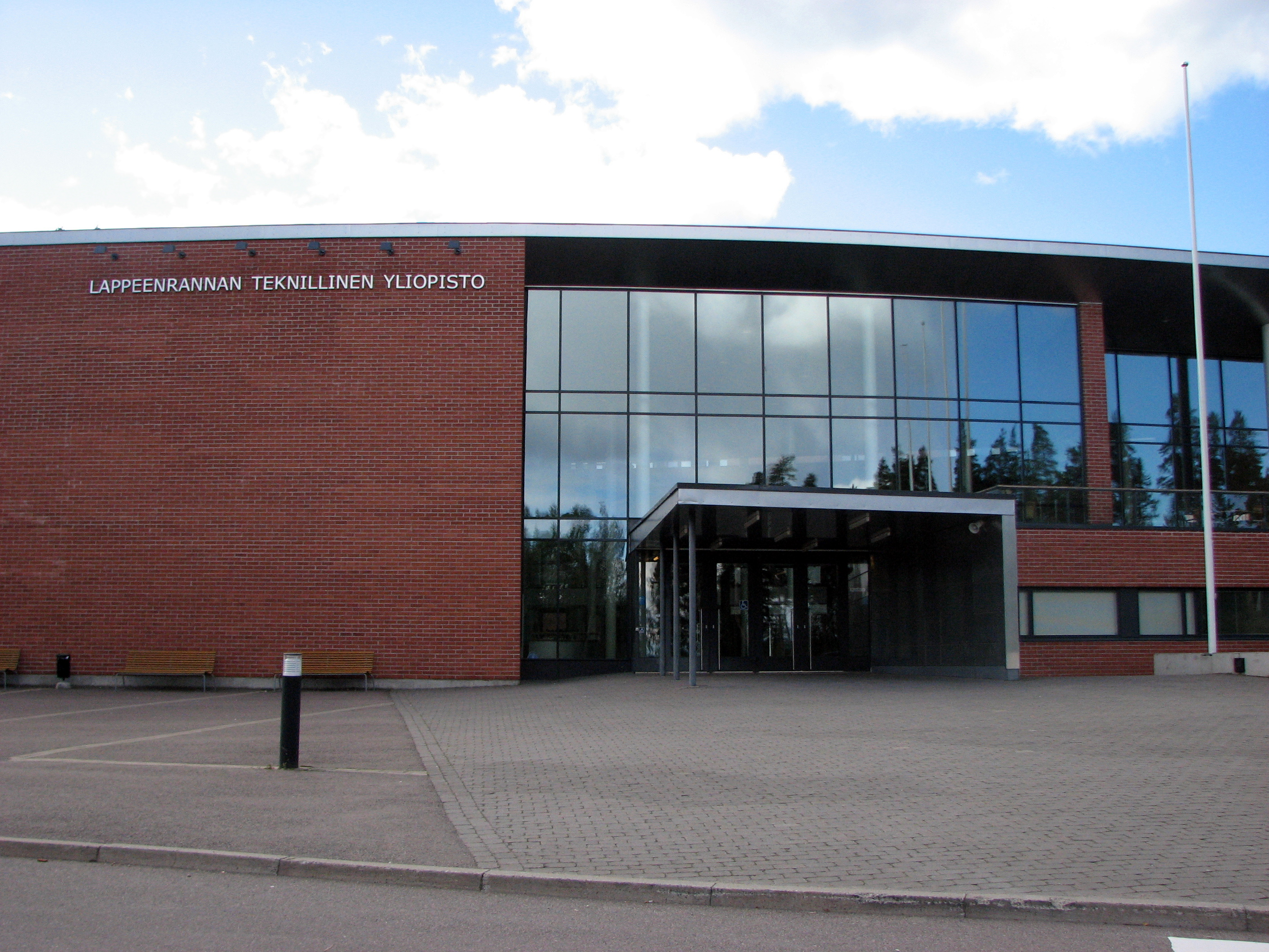 Lappenranta University of Technology in Skinnarila, Lappeenranta, Finland